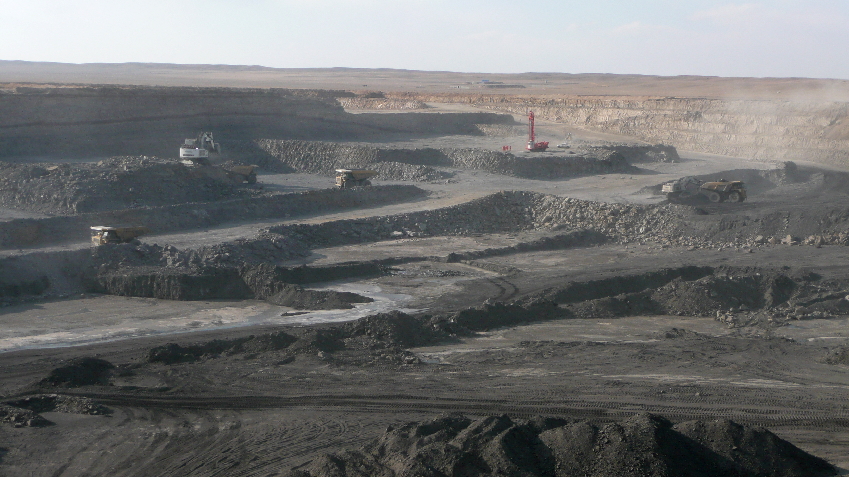 Energy Resources LLC, UHG Ukhaa Khudag Project in Tavan Tolgoi